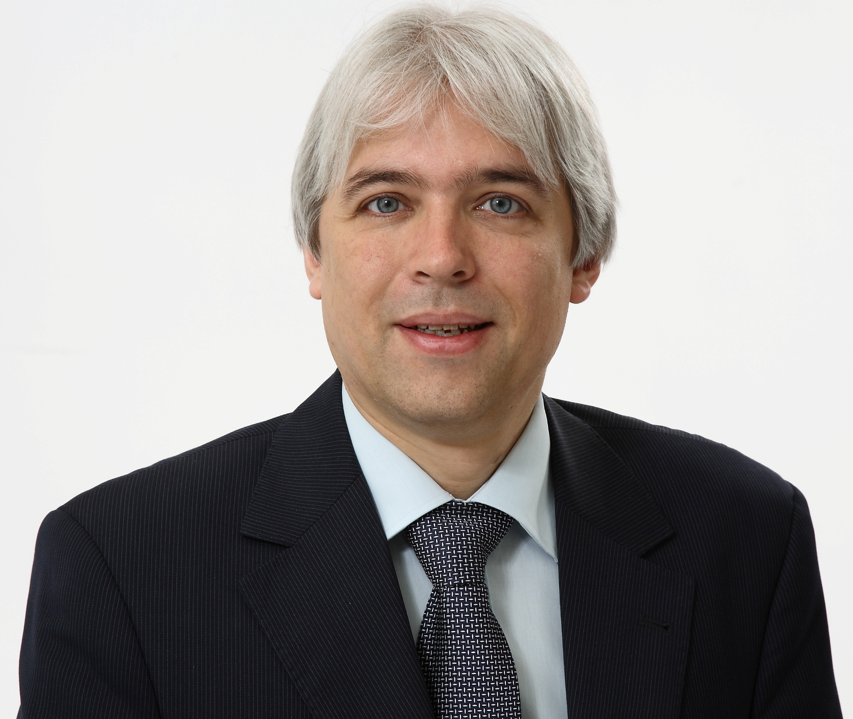 Portrait of Willy Christian Kriz